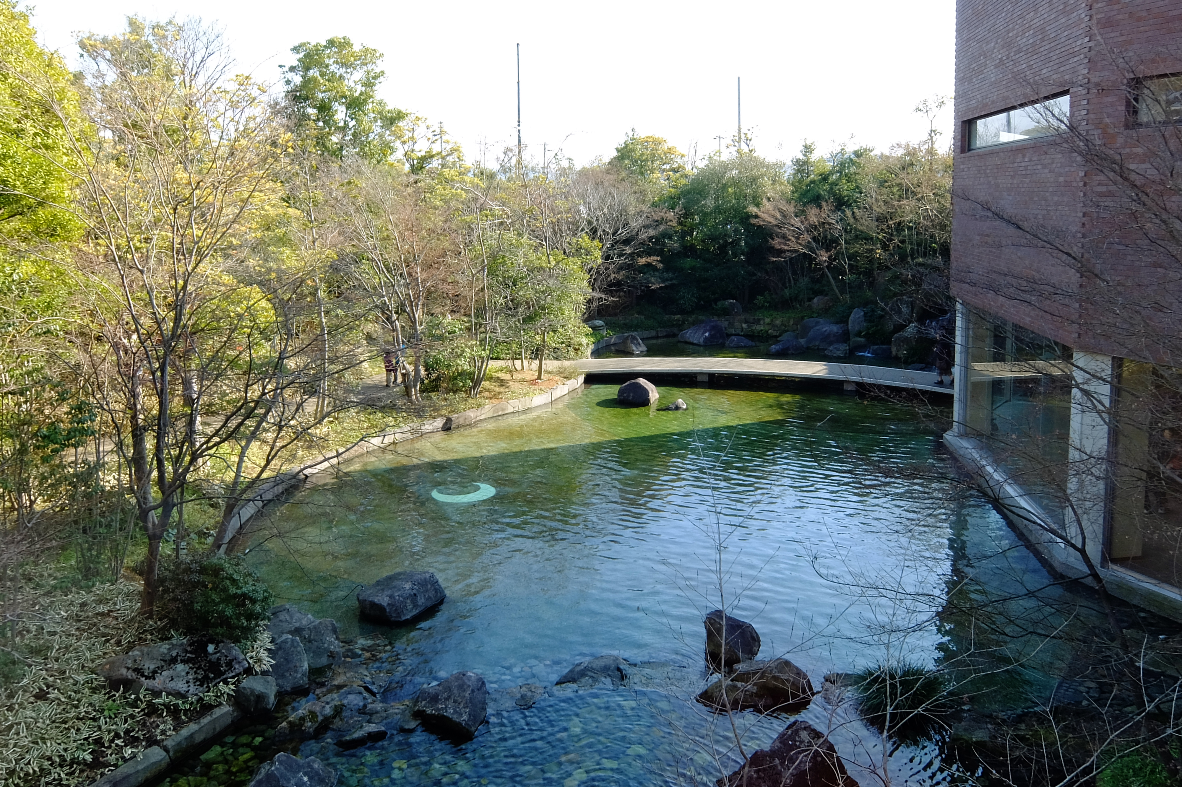 Azuki Museum in Himeji, Hyogo prefecture, Japan.